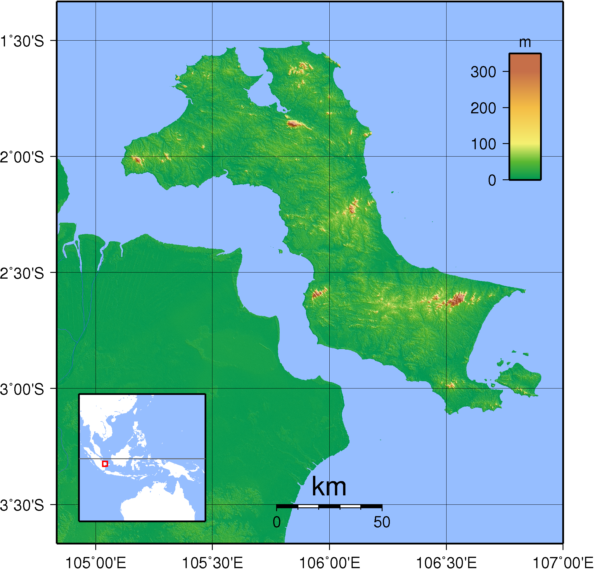 Topographic maps of Bangka. Created with GMT from SRTM data